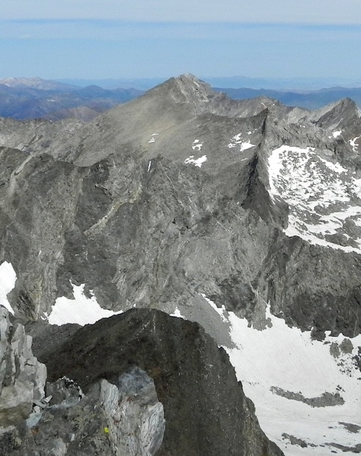 Goat Mountain at center in the Pioneer Mountains in Idaho viewed from the summit of Hyndman Peak.